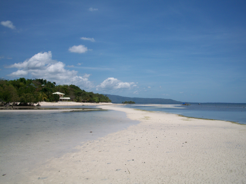 The beach outside my resort on Siquijor Island. Larena, Siquijor, Philippines